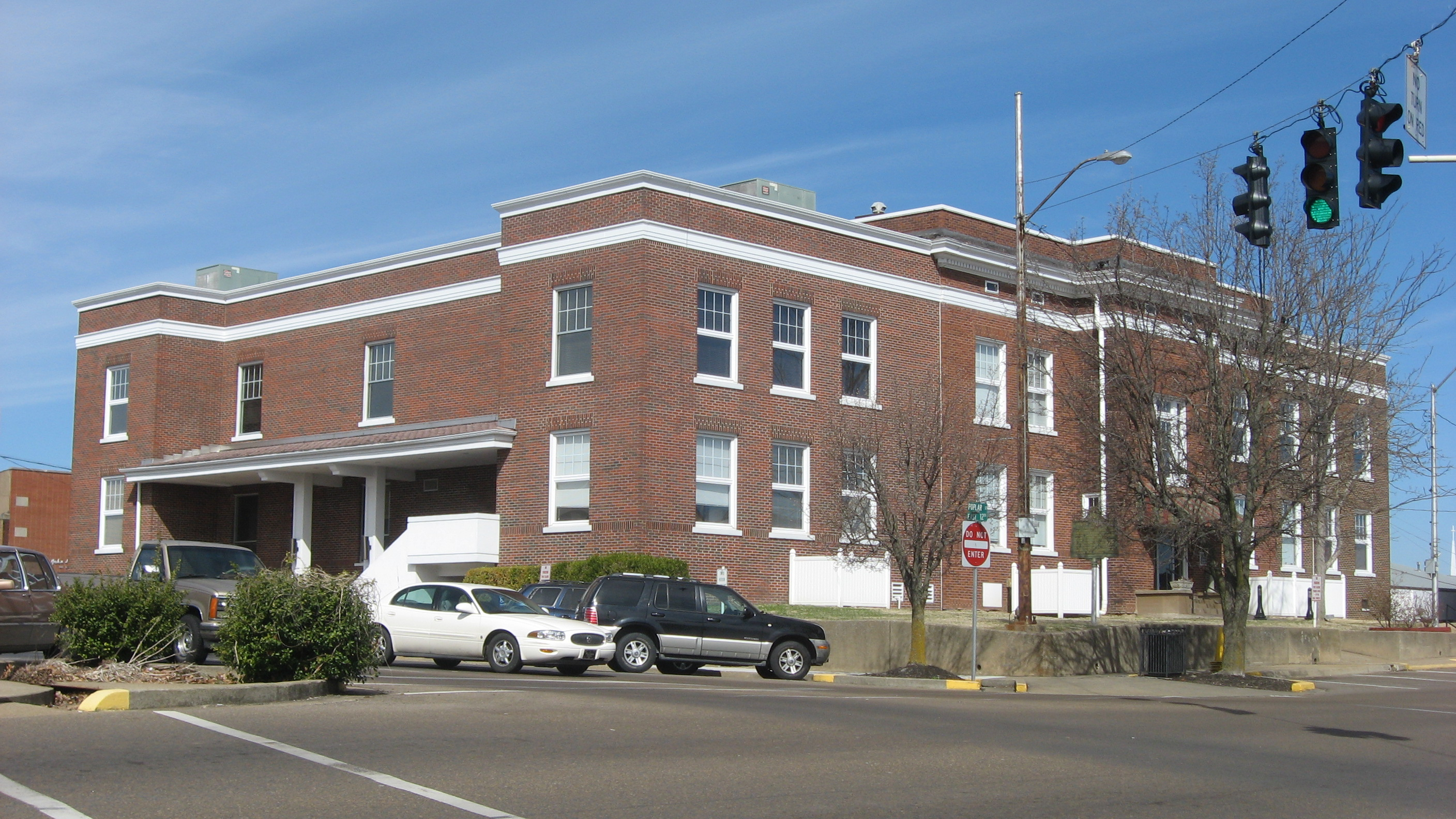 Southern side and eastern front of the Marshall County Courthouse, located at 1101 Main Street (U.S. Route 641/Kentucky Routes 58/408) in Benton, Kentucky, United States. It was built in 1915.